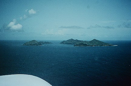 Aerial view of the Maug Islands in the Northern Mariana Islands.